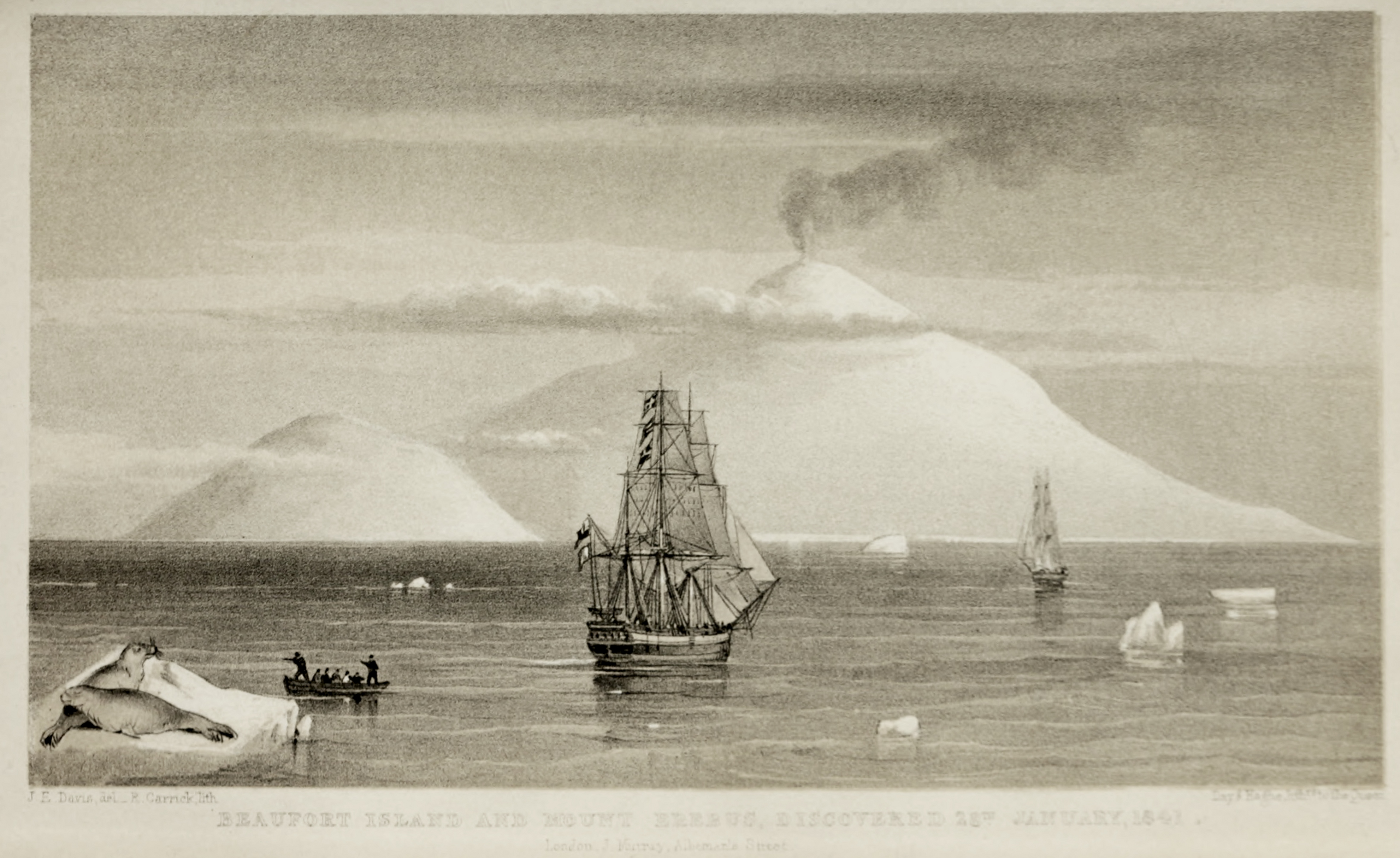 image on page 313 of File:A Voyage of Discovery and Research in the Southern and Antarctic Regions Vol 1.djvu